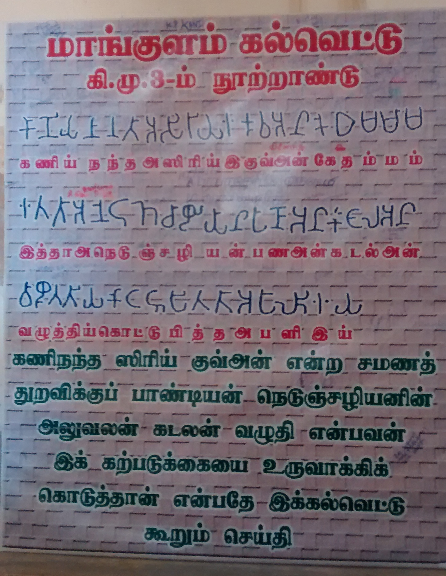 Tamil Inscriptions in Thirumal Naicker Mahal Museum, Madurai, Tamil Nadu.